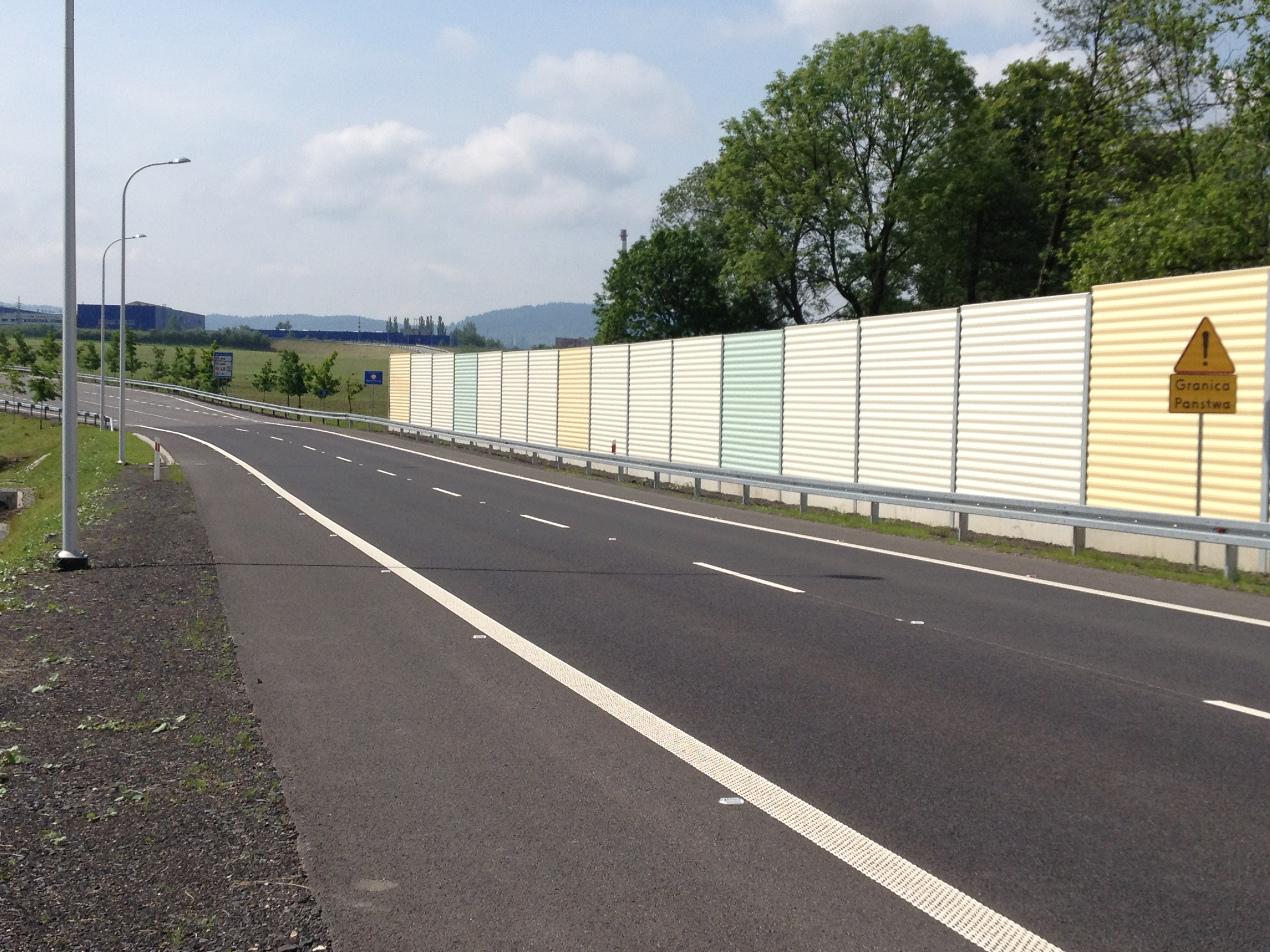 border crossing